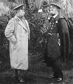 General V. P. Lyakhov (on the left) and Rear Admiral A. I. Greve (chief of the Batum port) at the inauguration of the 1st agriculture exhibition in Batum